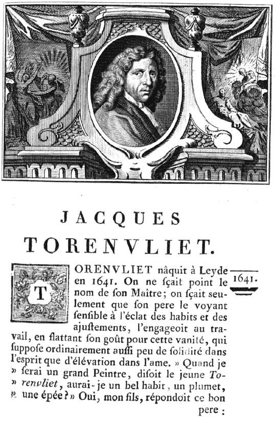 Book 3 of 4-volume painter biographies by Jean-Baptiste Descamps